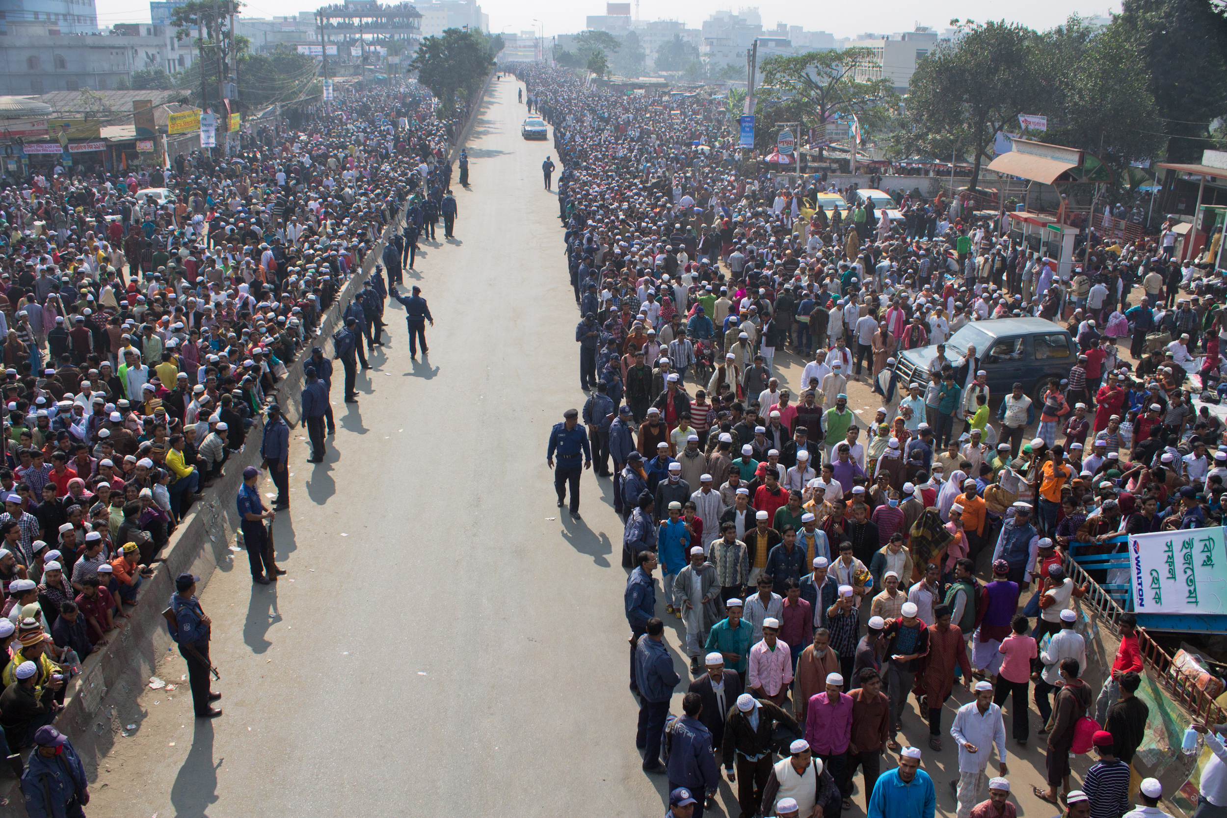 World congregation of Muslim nation, Tongi, Bangladesh